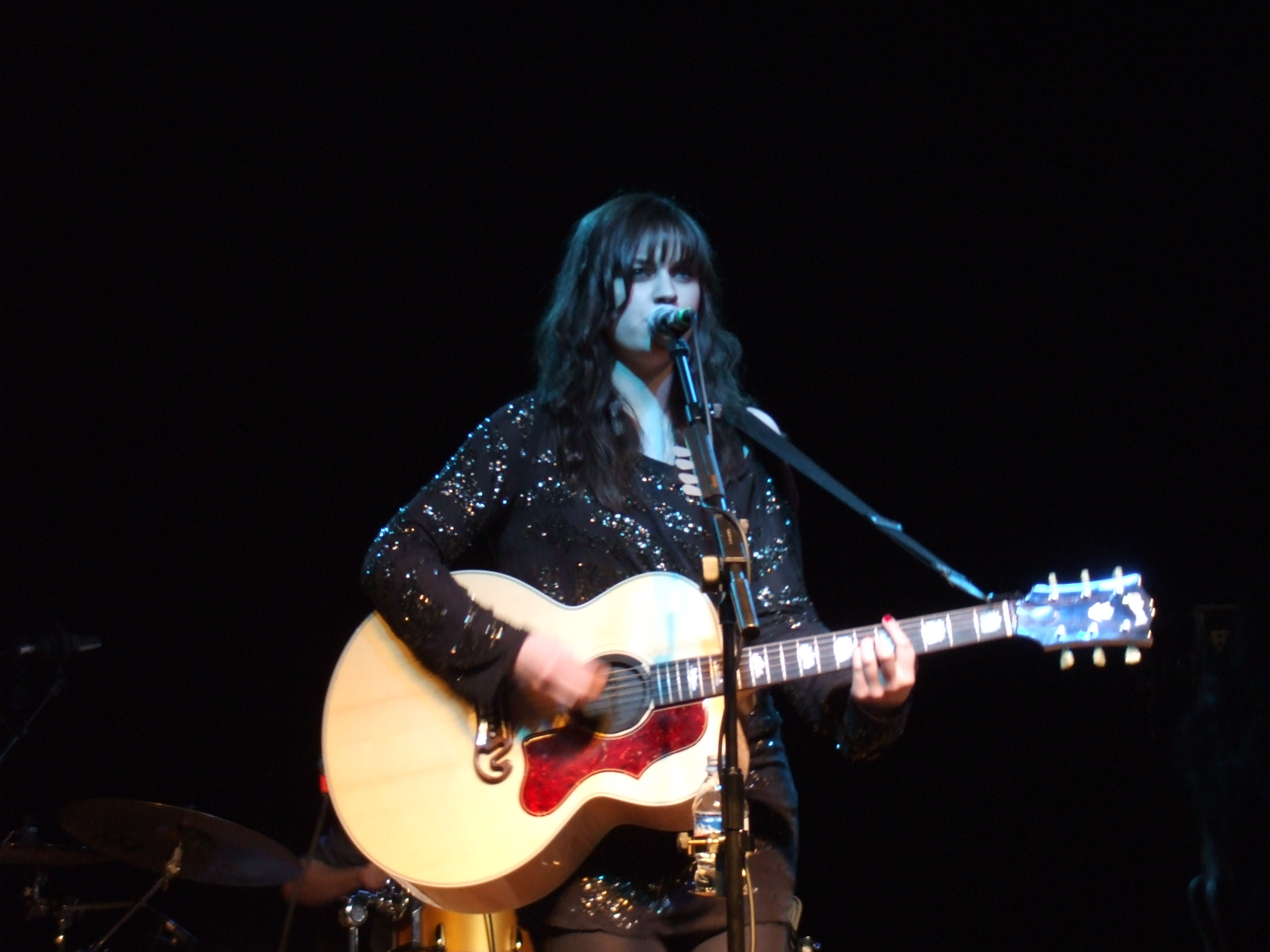 Amy MacDonald at Wulfrun Hall, Wolverhampton.